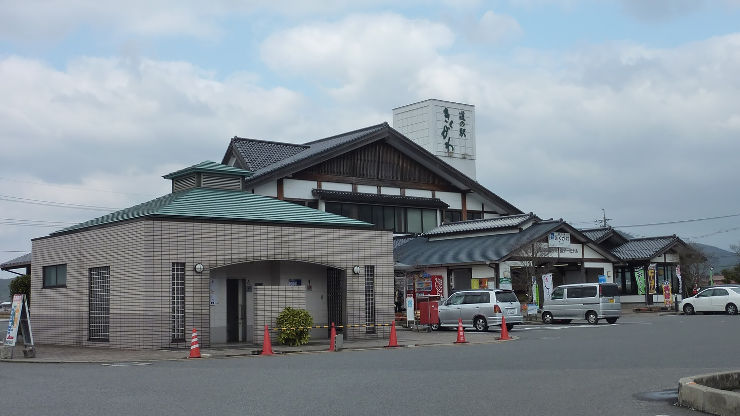 The Michinoeki kikugawa (Kikugawa-cho, Shimonoseki City, Yamaguchi Prefecture, Japan)